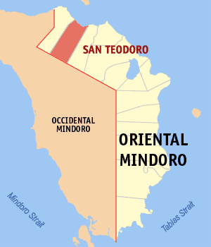 Map of Oriental Mindoro showing the location of San Teodoro